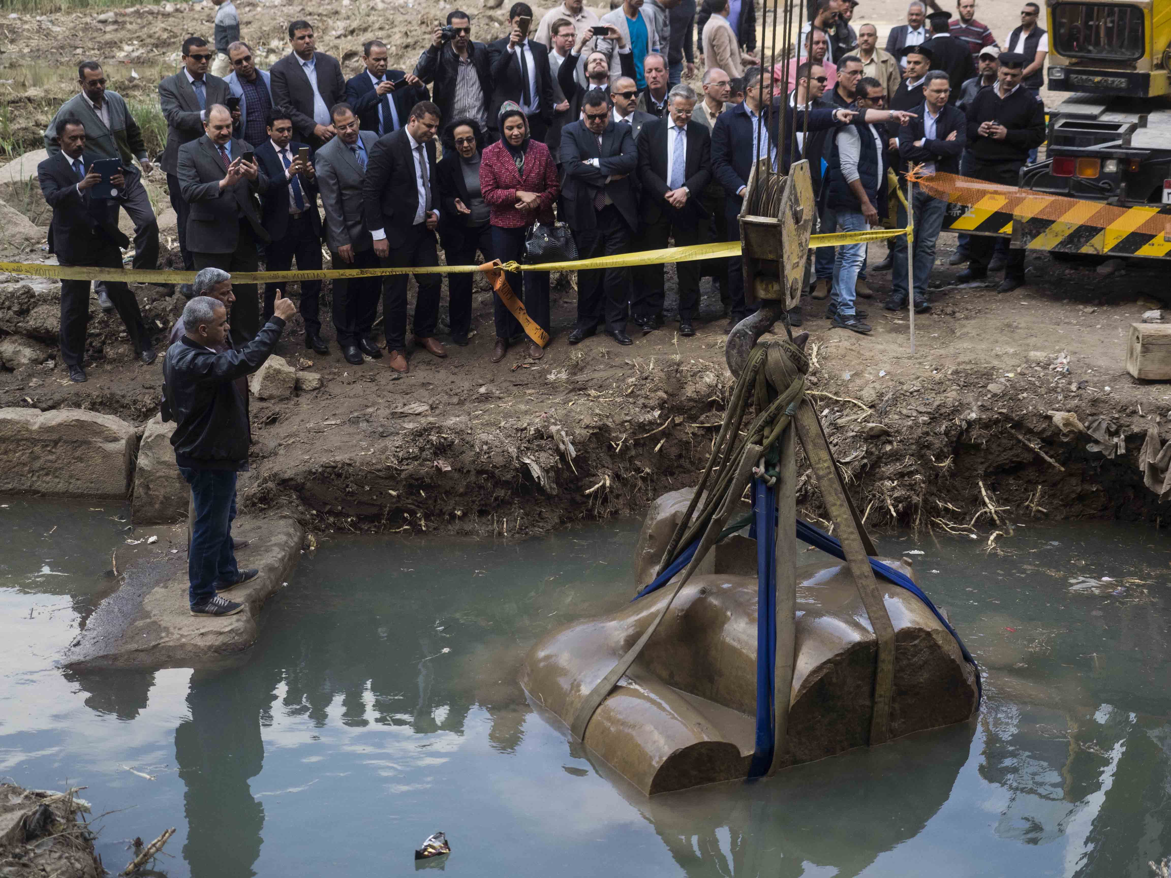 A crane lifts part of an Egyptian statue found at the Matariya area, north of Cairo, Egypt. The statue was originally identified as Ramses II, but it was later identified as Psamtik I.